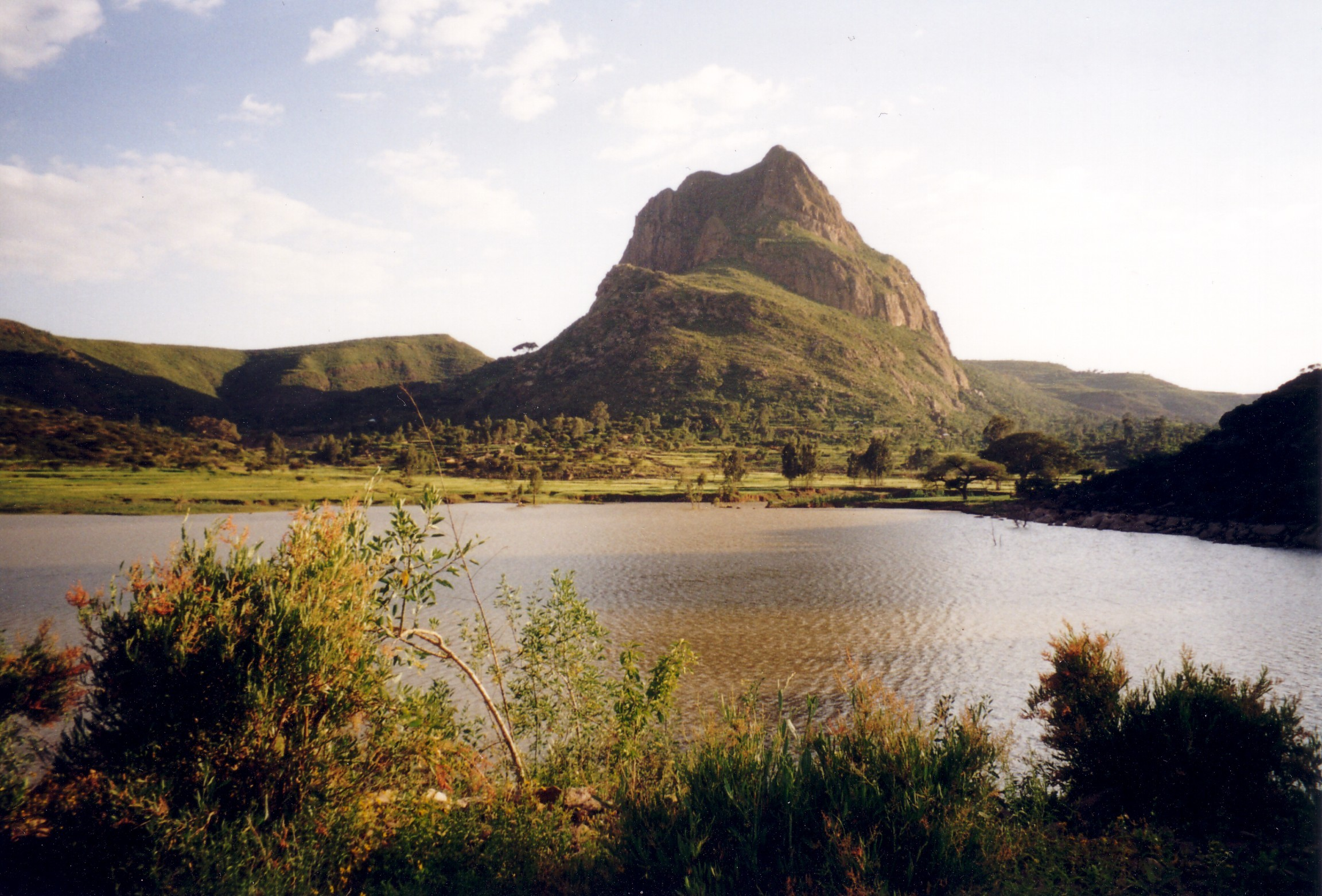 Dibdibo